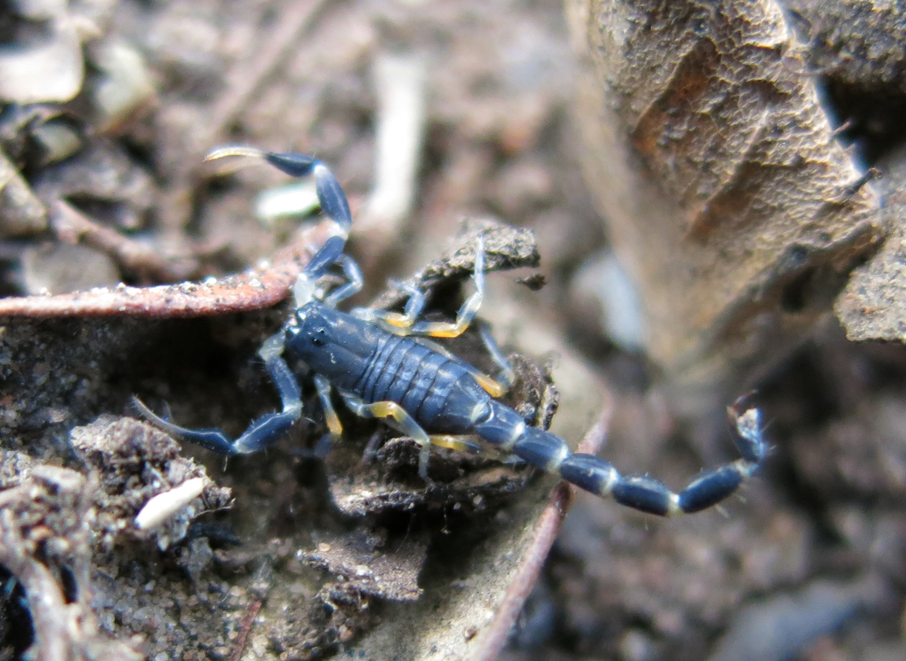 Uroplectes flavoviridis, Pafuri/Makuleke, Kruger National Park, South Africa